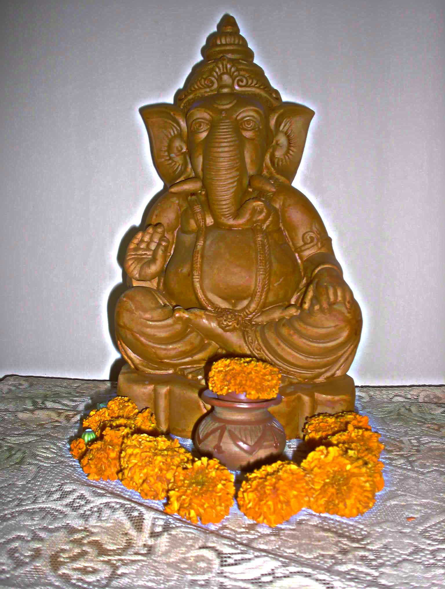 clay image of the hindu deity Ganesha